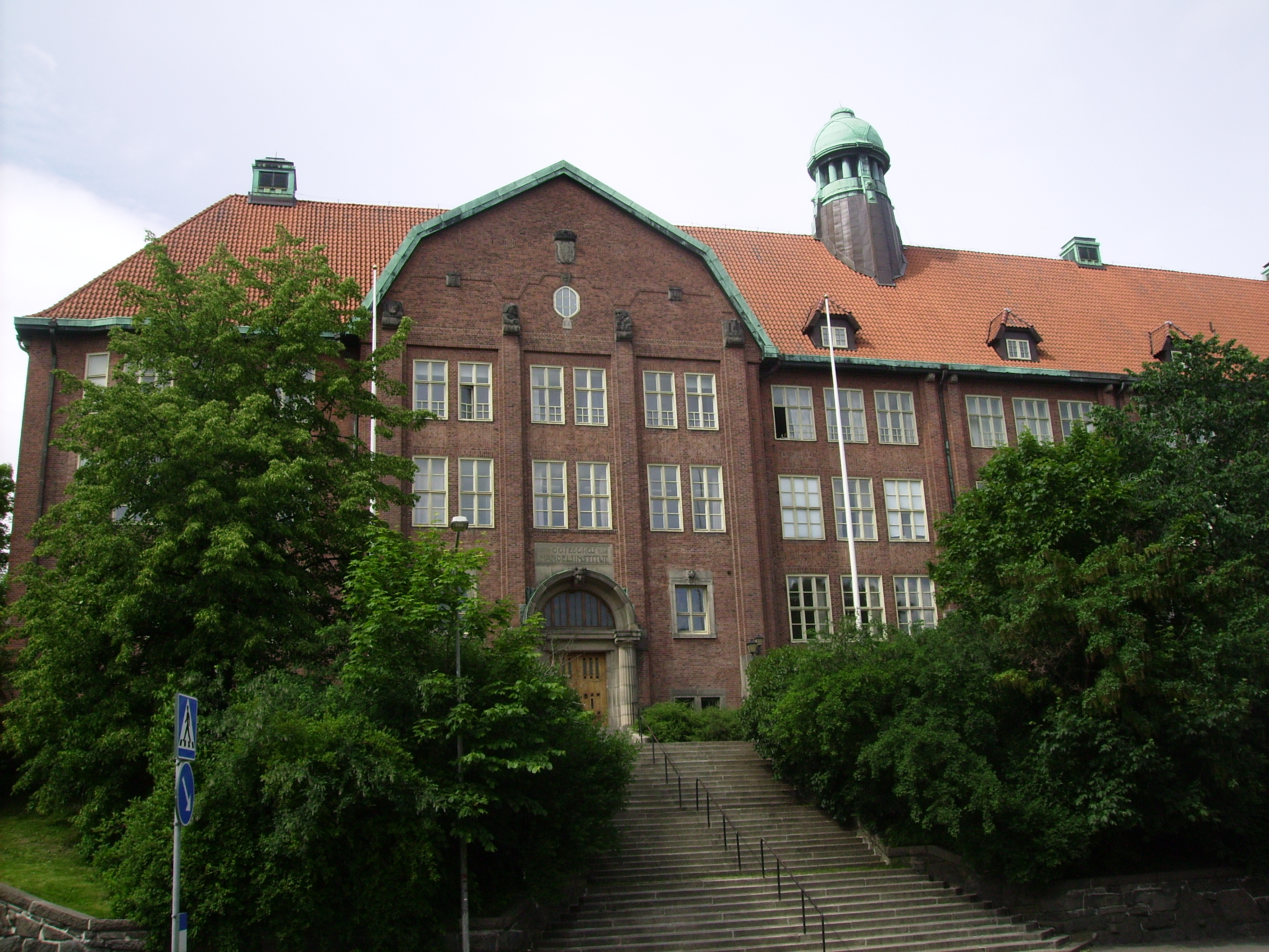 Picture of former Göteborgs handelsinstitut (now Hvitfeldtska gymnasiet).